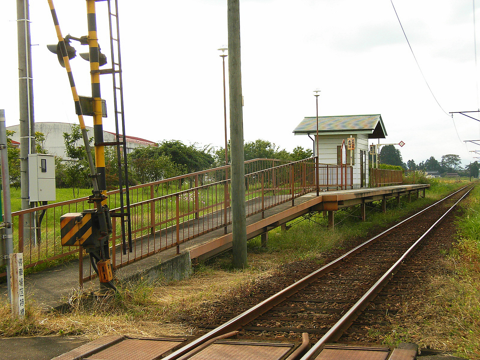 Ōokashōmae Station of the Kurihara Denen Railway. Kurihara, Miyagi prefecture, Japan.